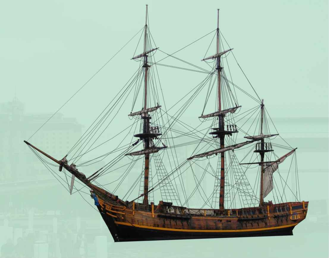 NZ Bounty replica at Sydney, edited by me to remove busy background